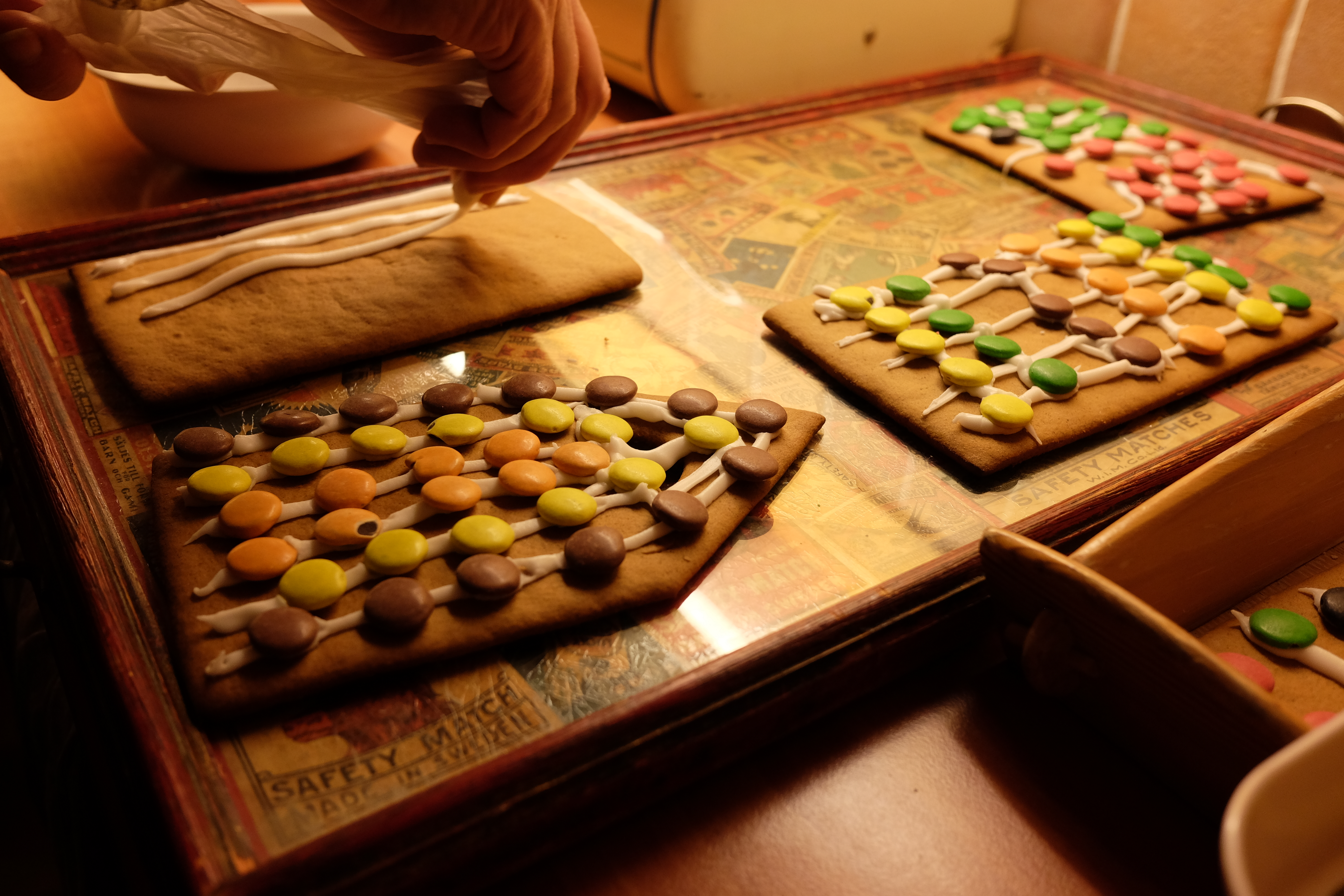 Putting glaze on gingerbread house, 2017, to be able to decorate the exterior with candy.